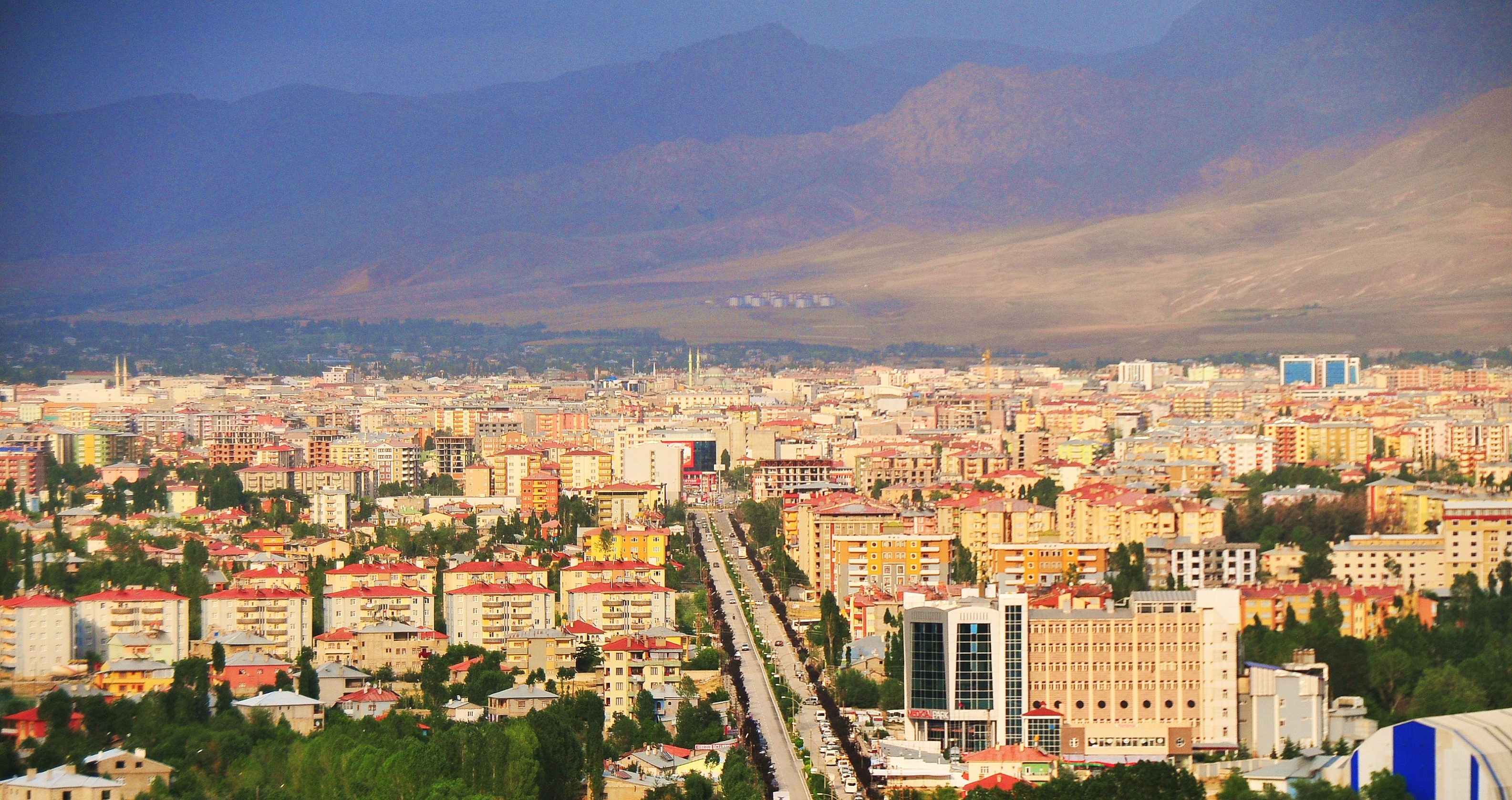 Van City